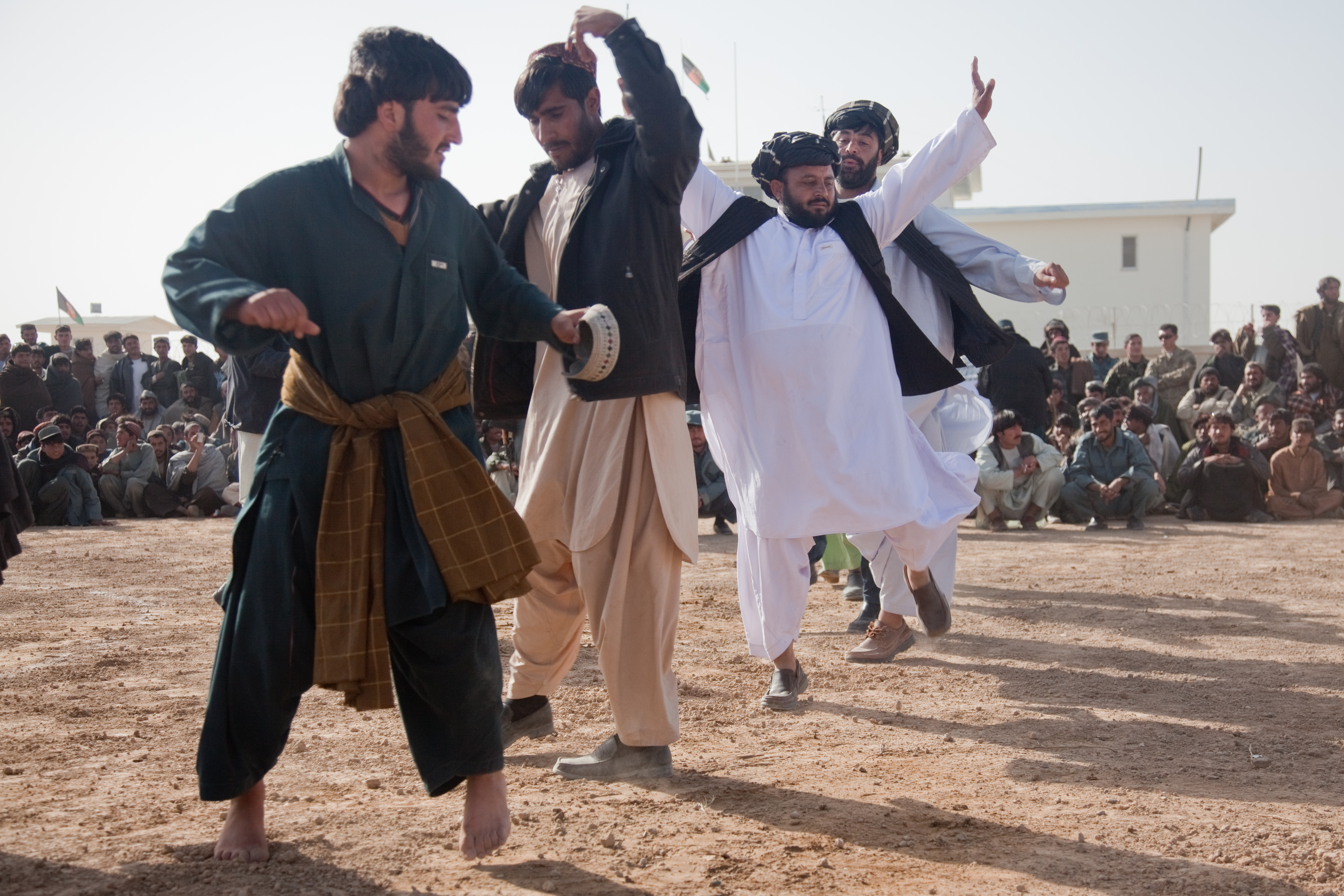 Local men dance outside of the Zhari District Center, Kandahar province, Afghanistan, Dec. 24, 2011. During an intermission at the district's wrestling tournament, one man played a drum while others danced around him.